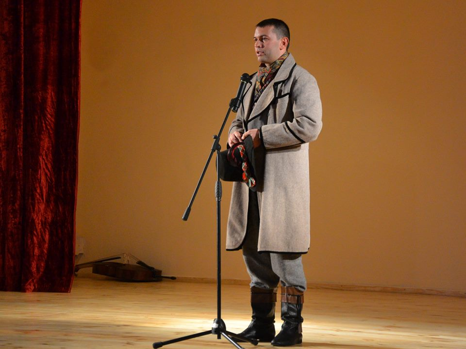 Remigijus Osauskas